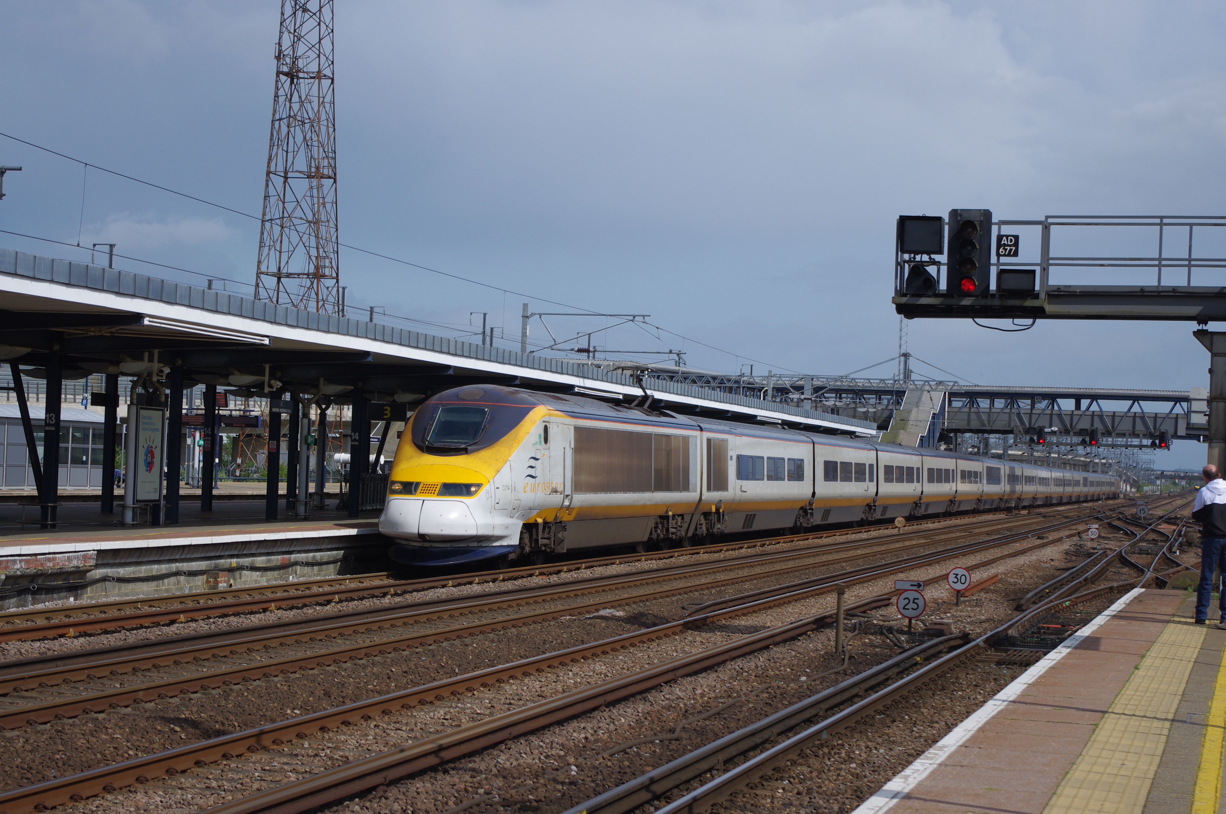 Eurostar Class 373 No. 3214 at Ashford International